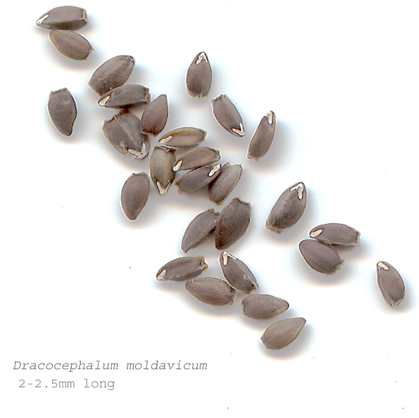 Self made scan of the seeds of Dracocephalum moldavicum. Made 01/04/2008